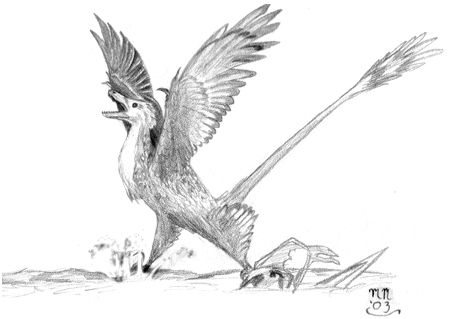 A sketch of the dromaeosauridae Saurornitholestes langstoni by Matt Martyniuk [1]